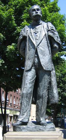 Cropped version of File:Edward Elgar statue.png but in a better extenstion. PD-self because I cropped it, change it to the same tag as the original if that's what it should be.